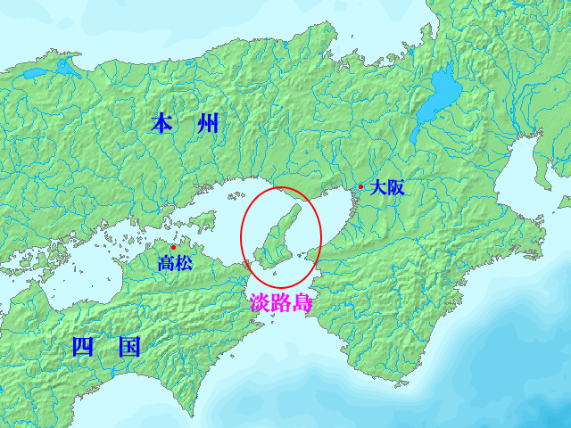 The location of Awaji Island